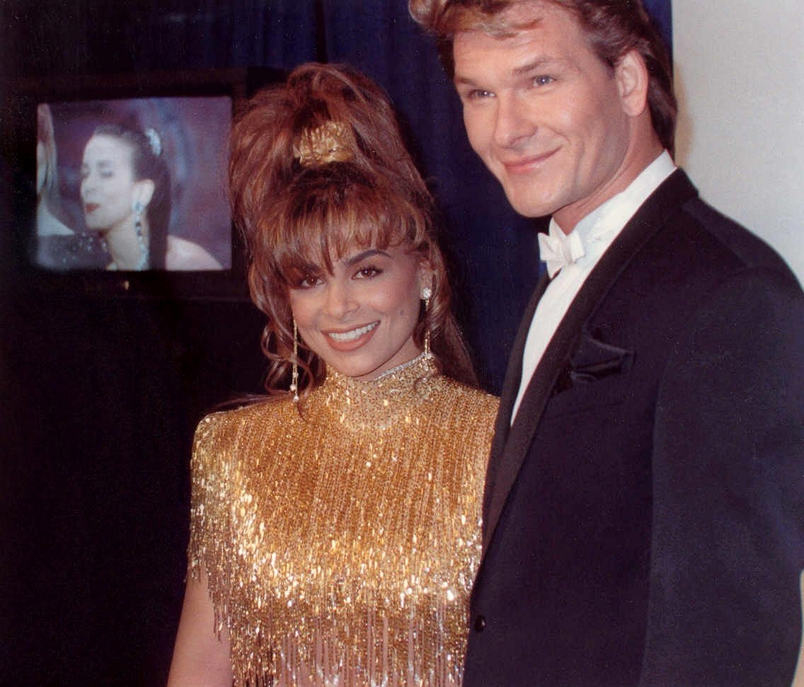 Paula Abdul & Patrick Swayze. Grammy Awards - back stage during telecast - February, 1990 - Permission granted to copy, publish or post but please credit "photo by Alan Light" if you canPaula Abdul & Patrick Swayze